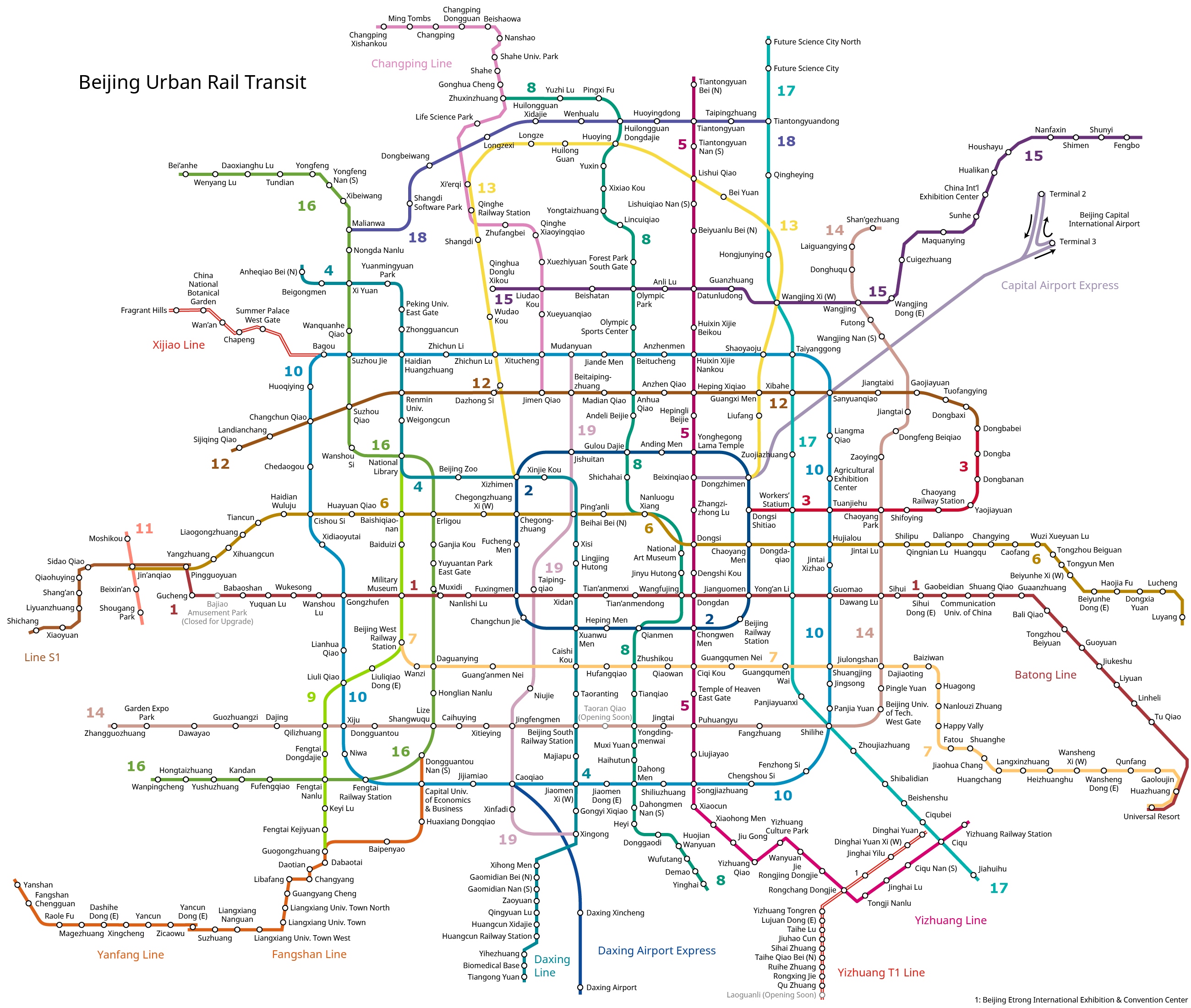 Beijing Subway, English version